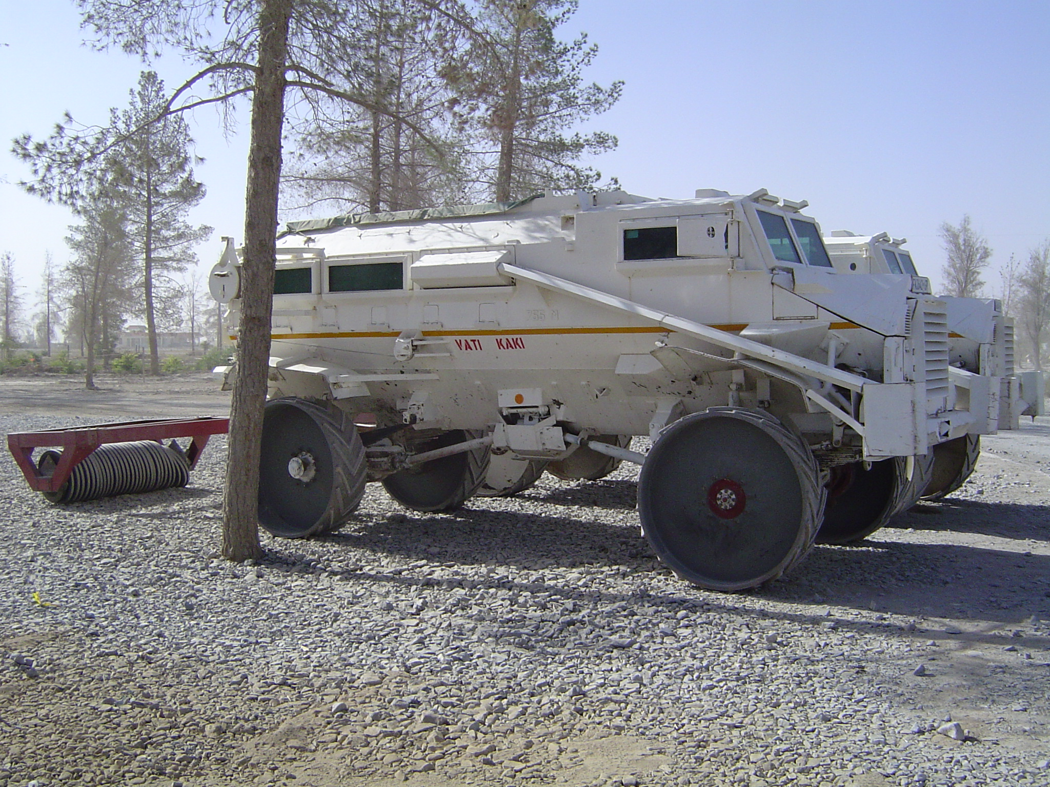 Mine clearing vehicles in Afghanistan. The text VATI KAKI on the side of the vehicle is Afrikaans slang meaning Don't take shit